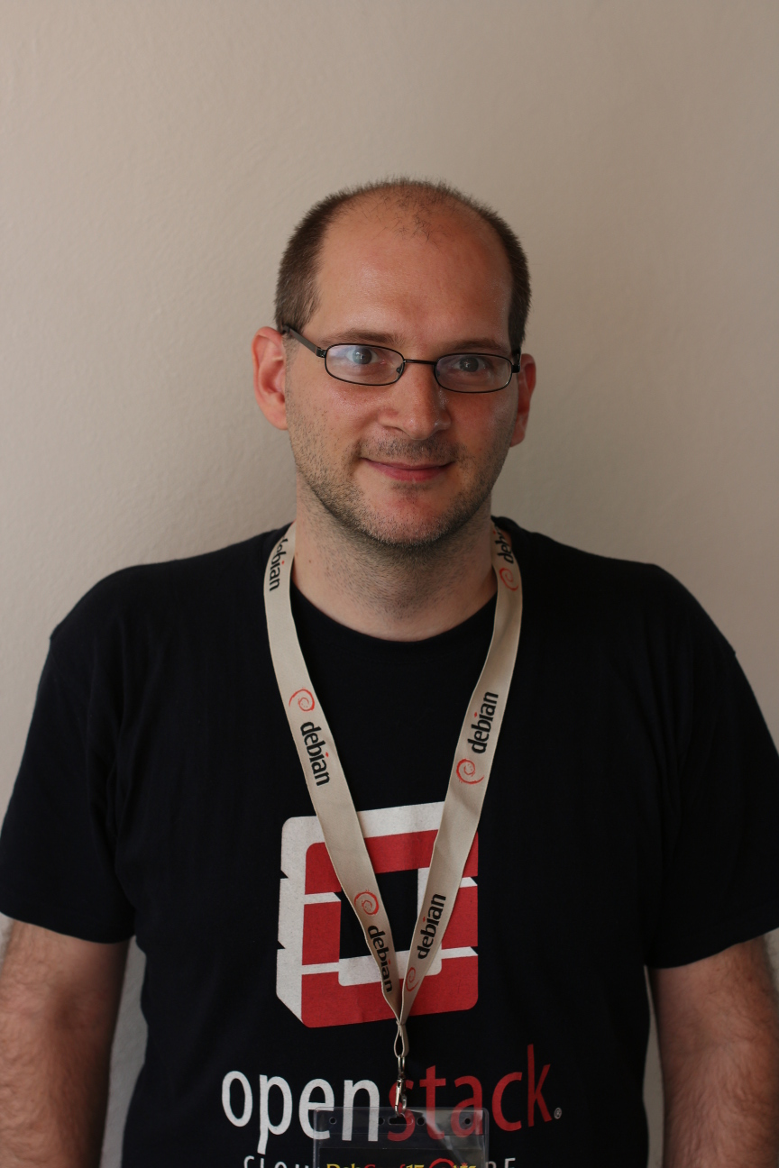 Photo by Aigars Mahinovs of Martin Michlmayr at Debconf15 in Germany.